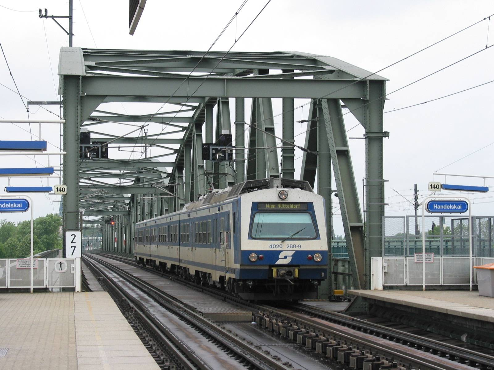 Nordbahnbrücke in Vienna with a class 4020 288-9 EMU, seen from from S-Bahn station Handelskai